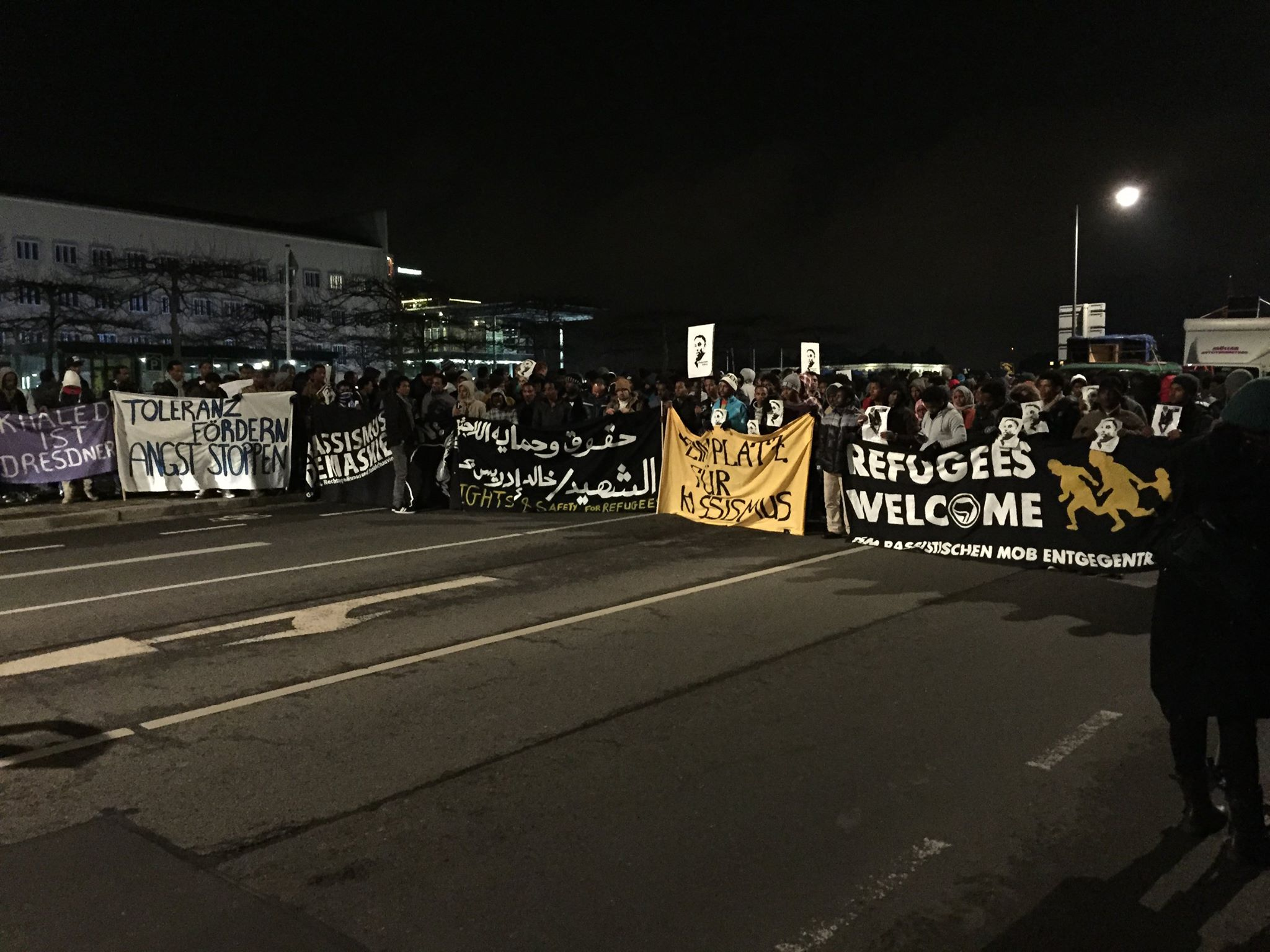 demonstration in dresden at 17 jan 2015 in commemoration of the murder of khaled idris bahray